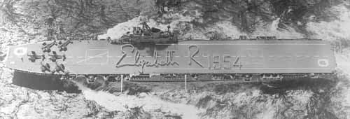 Aerial photograph of the aircraft carrier HMAS Vengeance underway. The ship's personnel have arranged themselves on the flight deck to recreate the signature of Queen Elizabeth II.